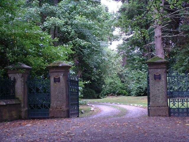 Lemlair Farm entrance.